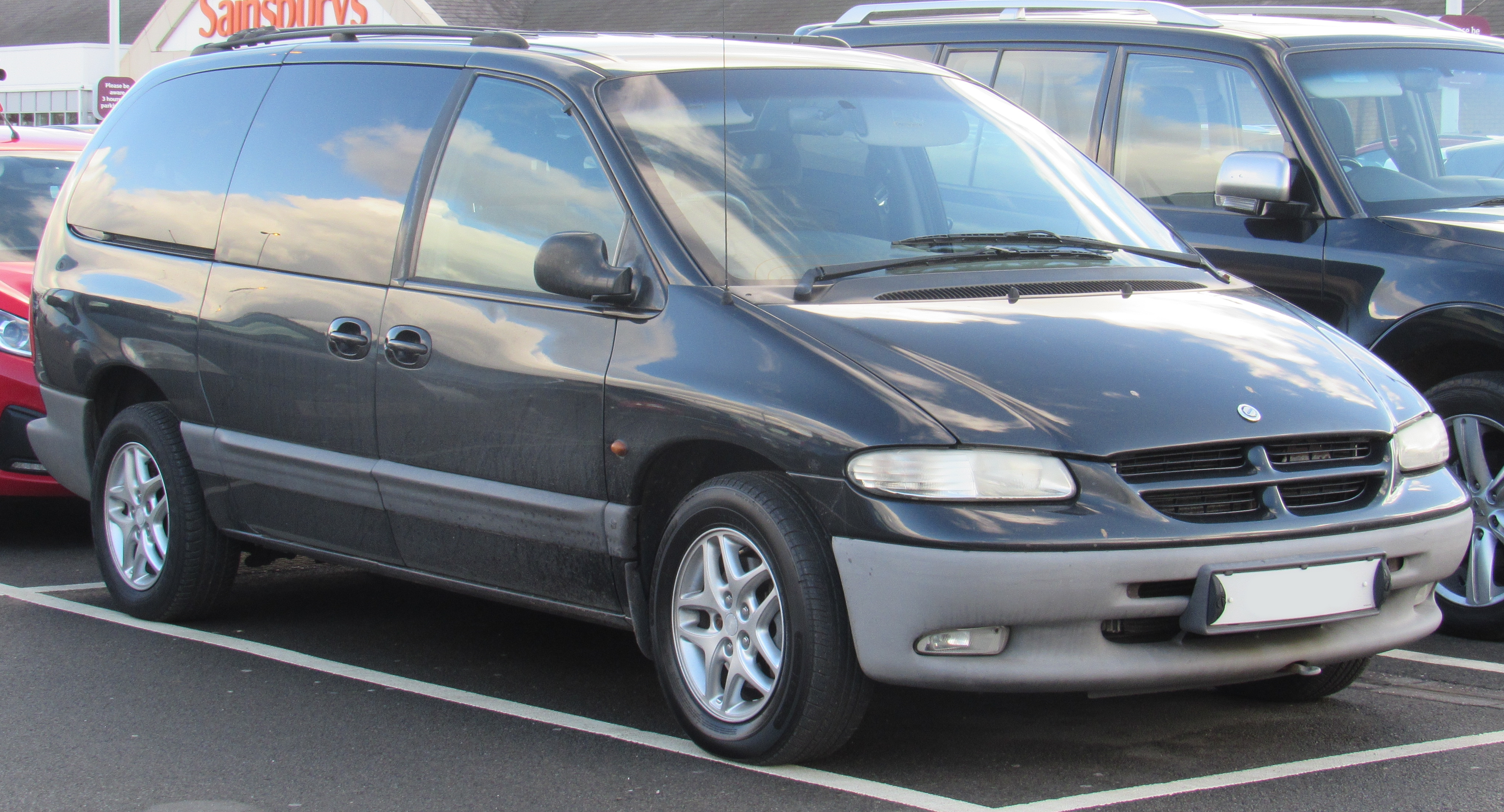 2001 Chrysler Grand Voyager LE Automatic 3.3 Taken in Leamington Spa